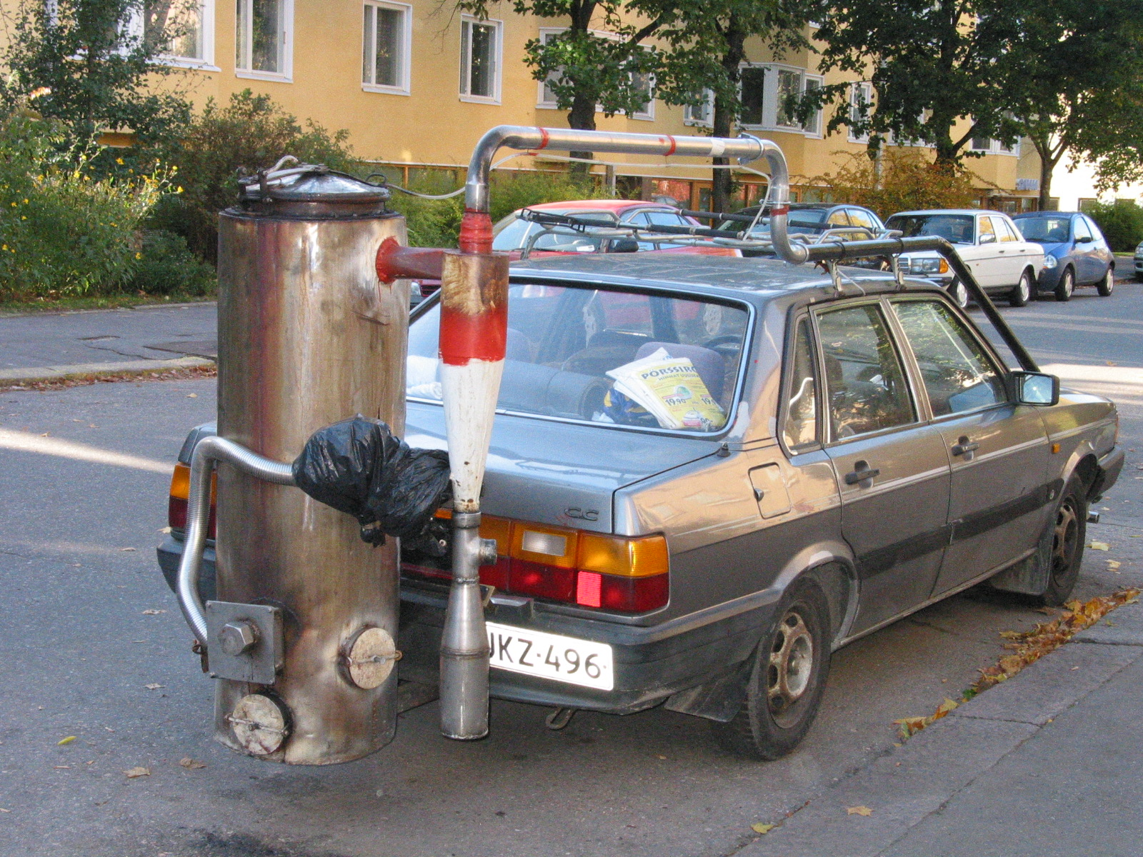 A car powered by wood gas. Photo taken in Helsinki